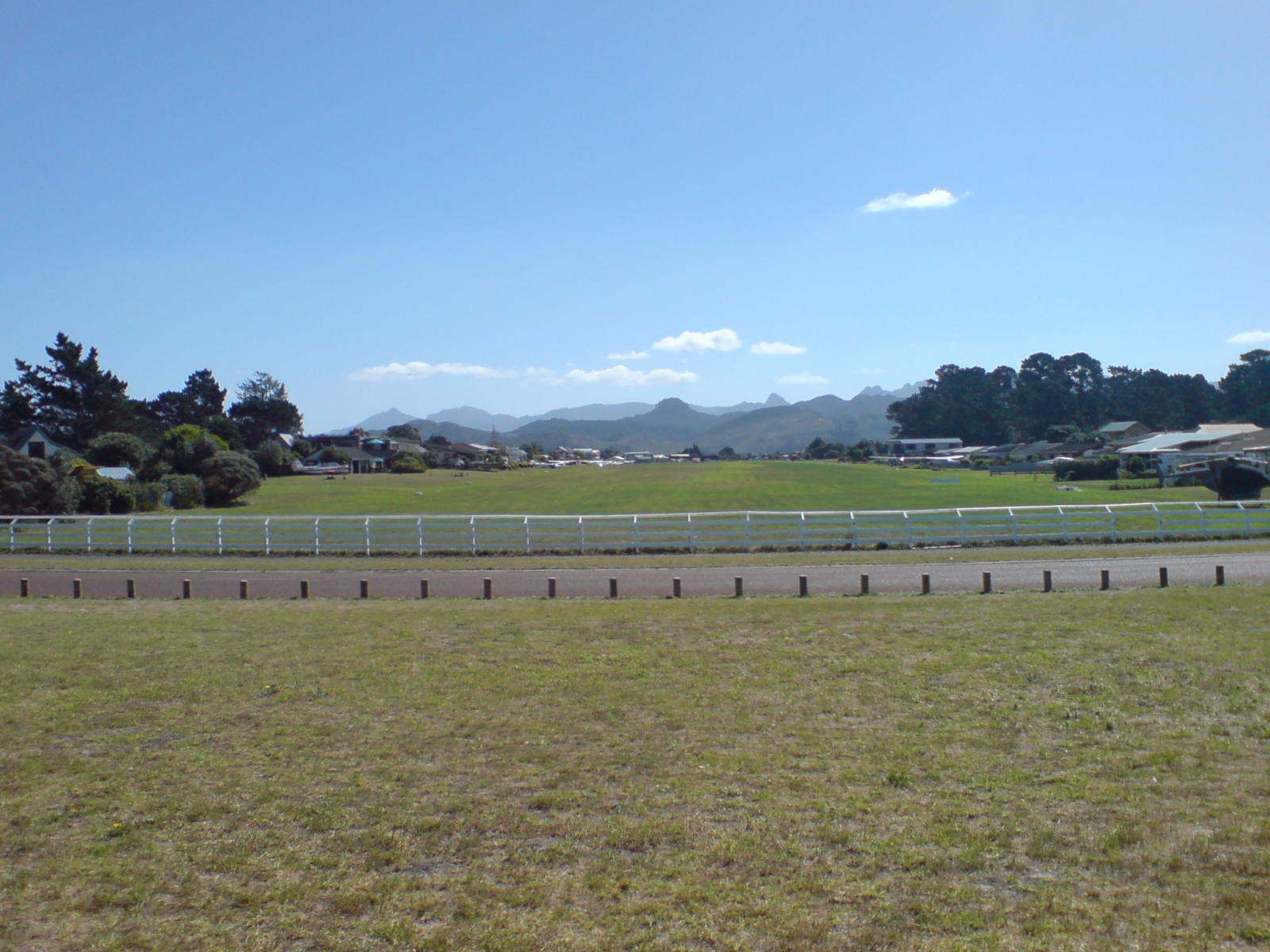 The Pauanui airfield in the Coromandel Pensinsula, New Zealand.